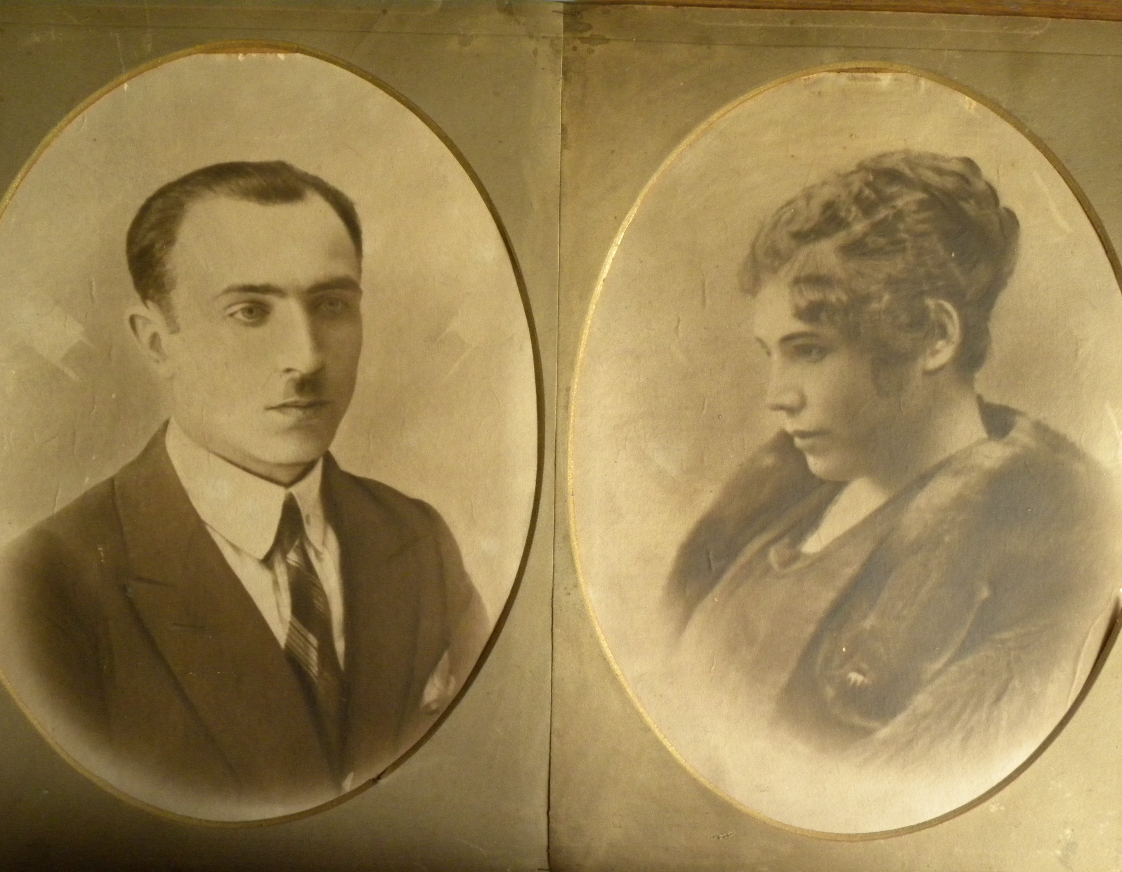 Максим та Олена Островські